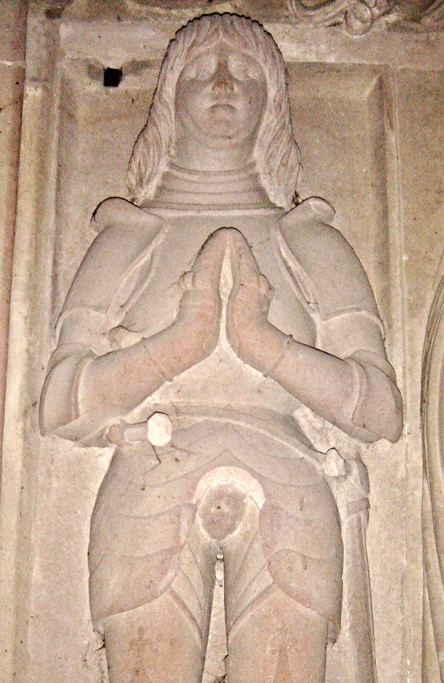 Friedrich von Dalberg (1459-1506) auf seinem Epitaph in der Katharinenkirche Oppenheim